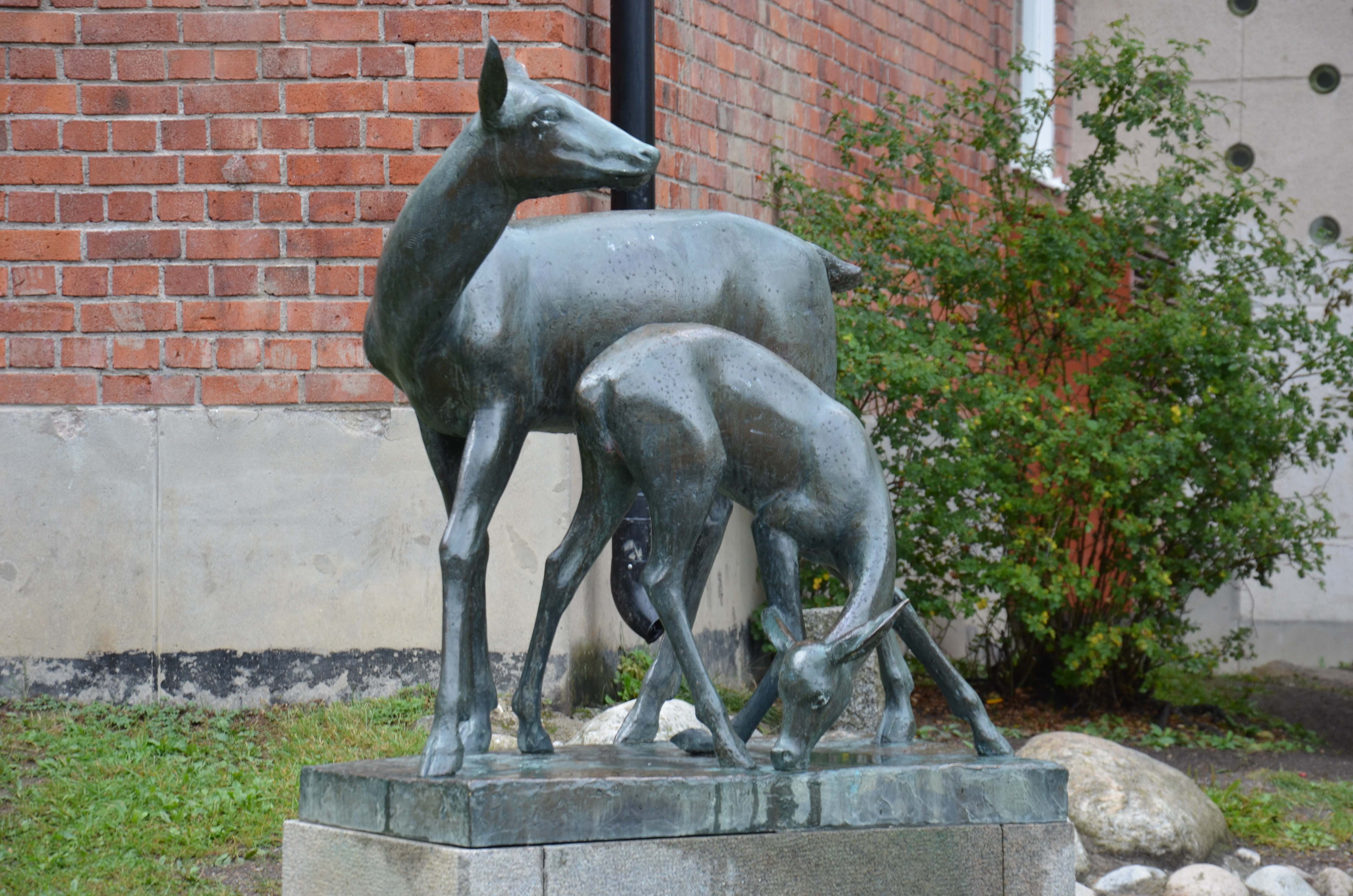 Hjorthind med kalv av Arne Vigeland, brons, Blackebergsskolan i Stockholm